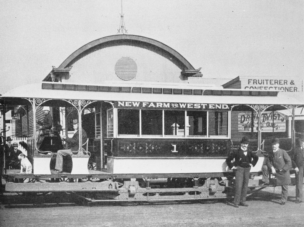 Creator: Unidentified Location: Unidentified Description: Horse Drawn Tram No 1 - New Farm - West End View this page at the State Library of Queensland: Information about State Library of Queensland?s collection